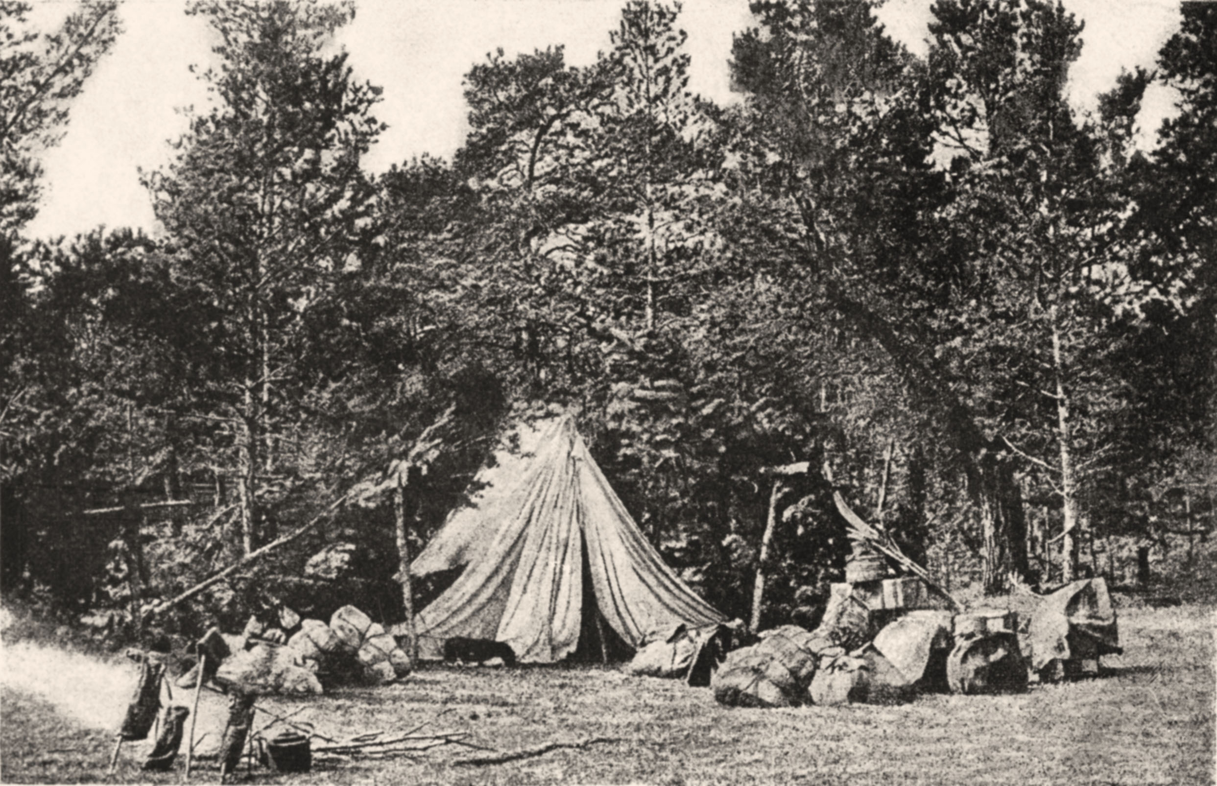 Kate Marsden's tent during her ride through Yakutian forests to visit outcast lepers. Original title of image in the book: "Tent life among the lepers".